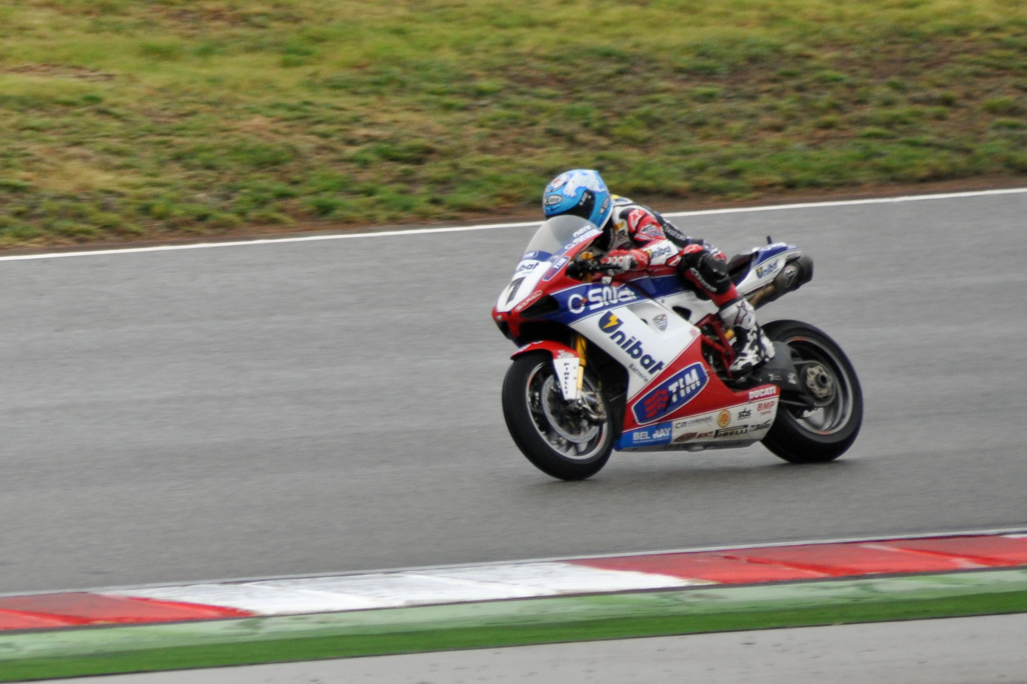 Portimão (Faro District, Algarve, Portugal), Algarve International Circuit, September 23, 2012. 2012 Superbike World Championship: #7 Carlos Checa's Ducati 1098R.